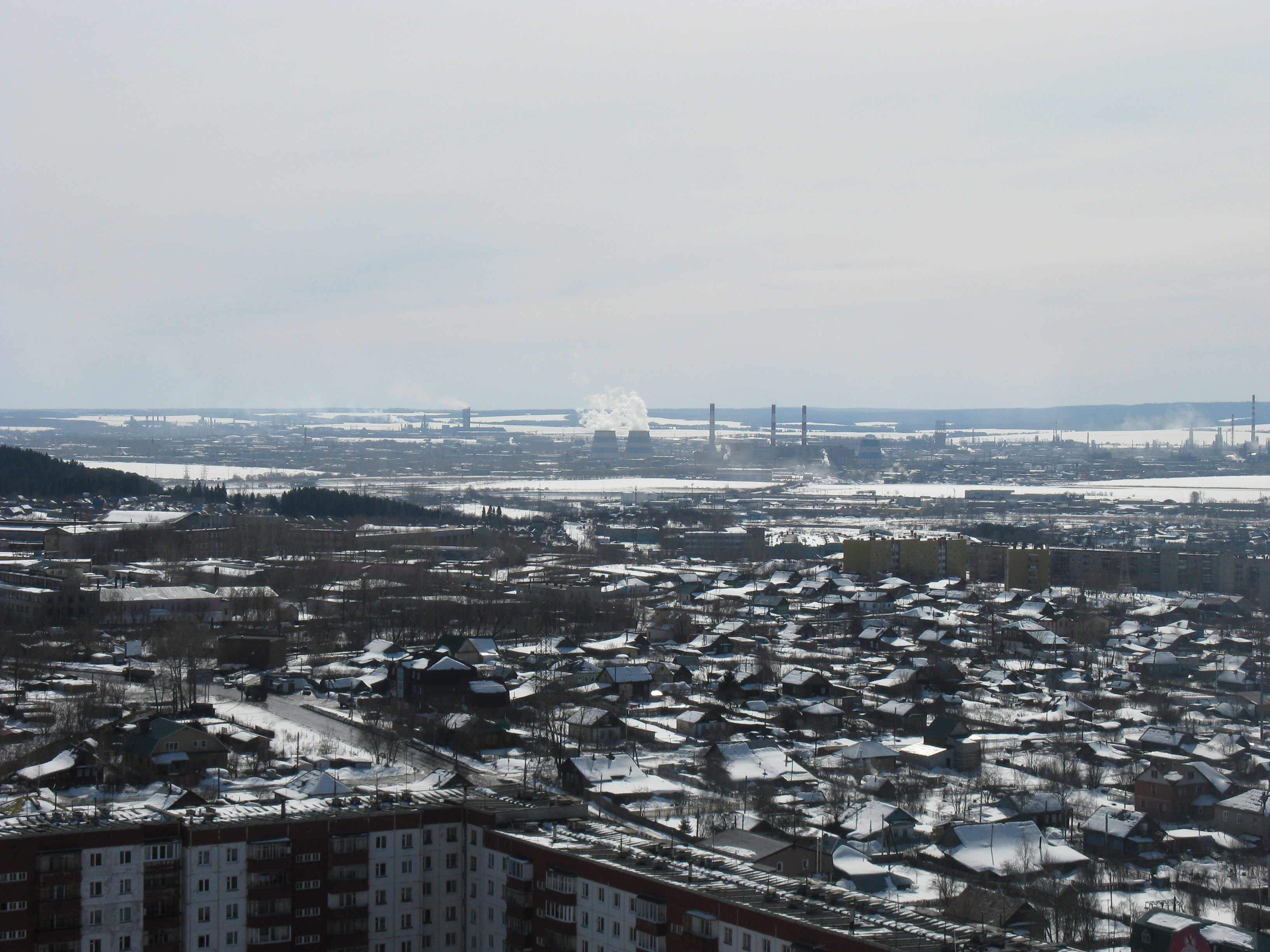 Oil refining factory "LUKOIL-PERMNEFTEORGSINTEZ" in Perm